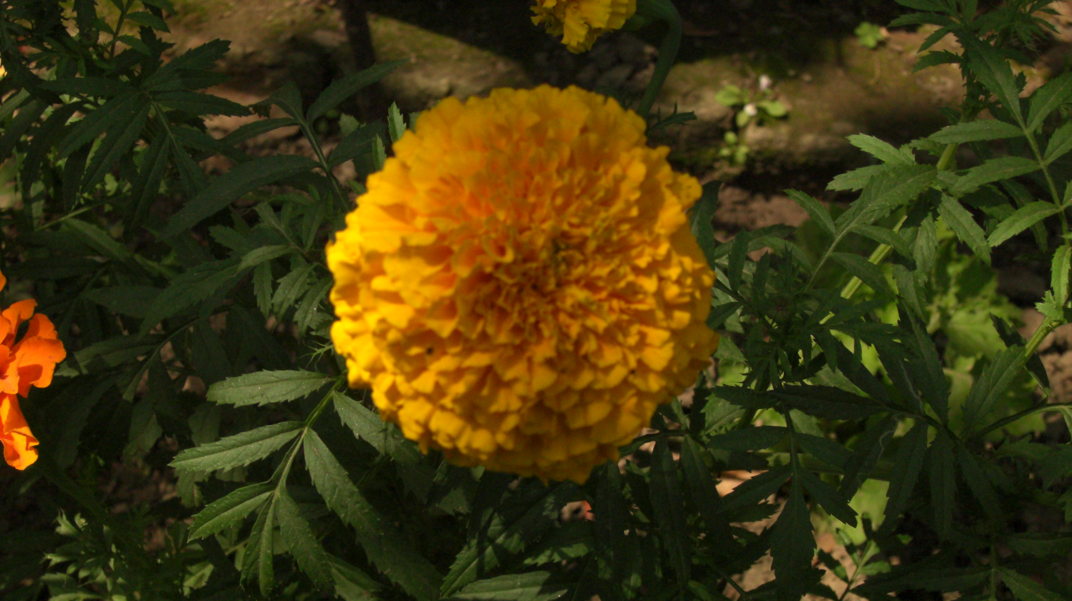 Further info